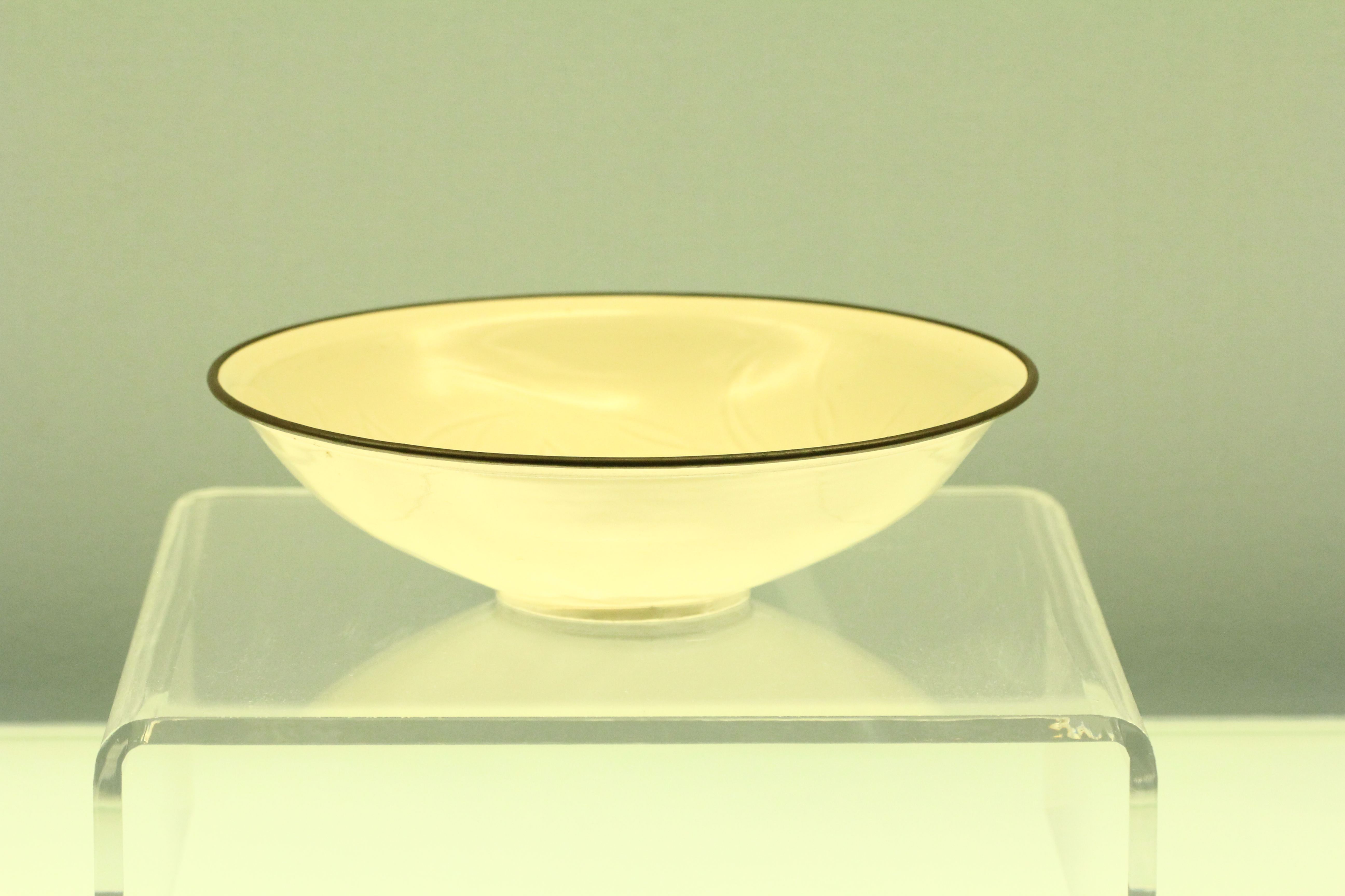 White glazed bowl with incised swimming goose design. Ding Ware. Northern Song, A.D. 960-1127.